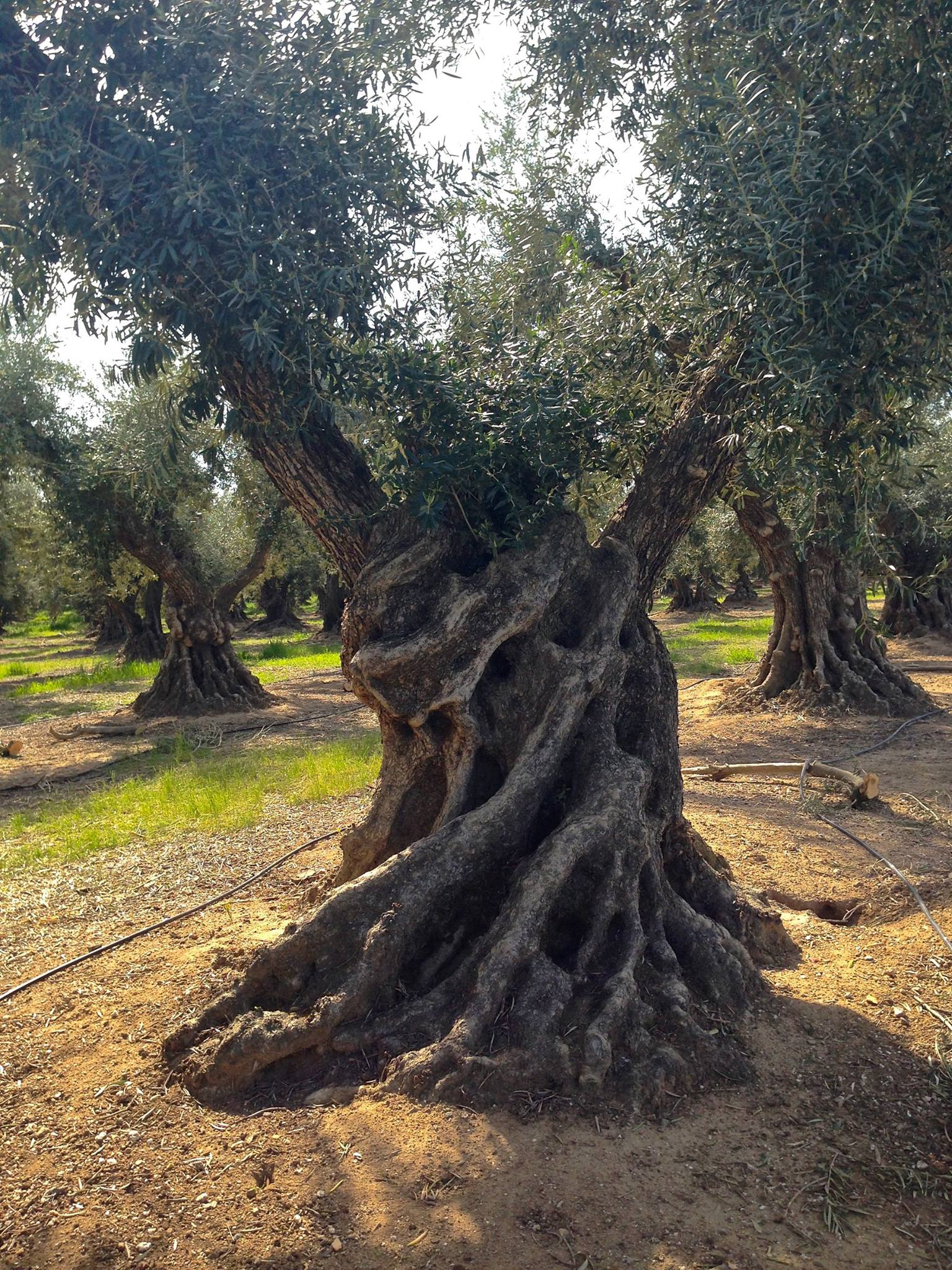 Old Sevillano Olive Tree in Corning, California